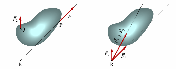 vetor